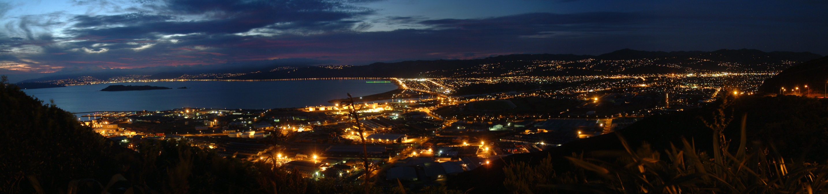 Panorama of Wellington Harbour and Petone at night, Lower Hutt, New Zealand